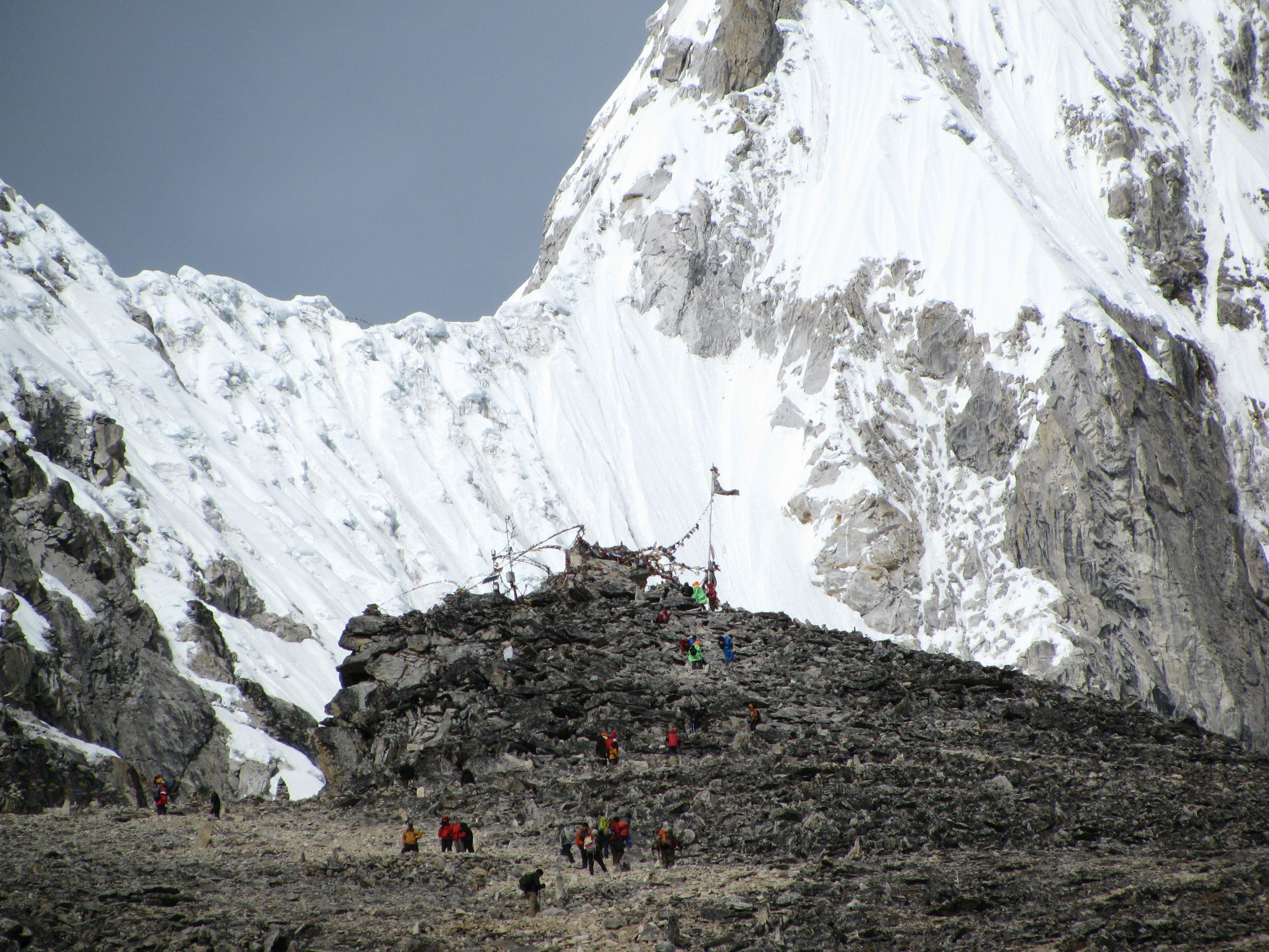 Kala Patthar as approached from the East and Gorak Shep